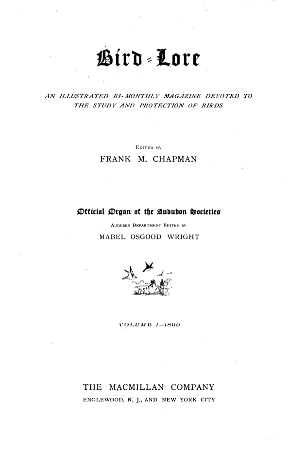 Cover of issue 1, Volume 1, Bird-Lore Magazine (1899)